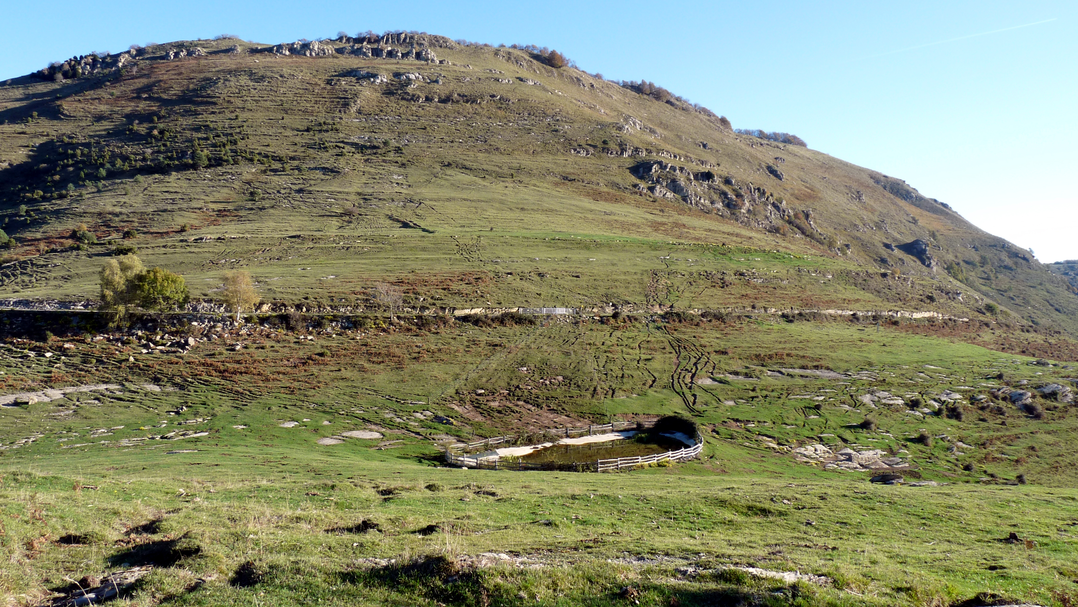 La Coma Negra (Spain)